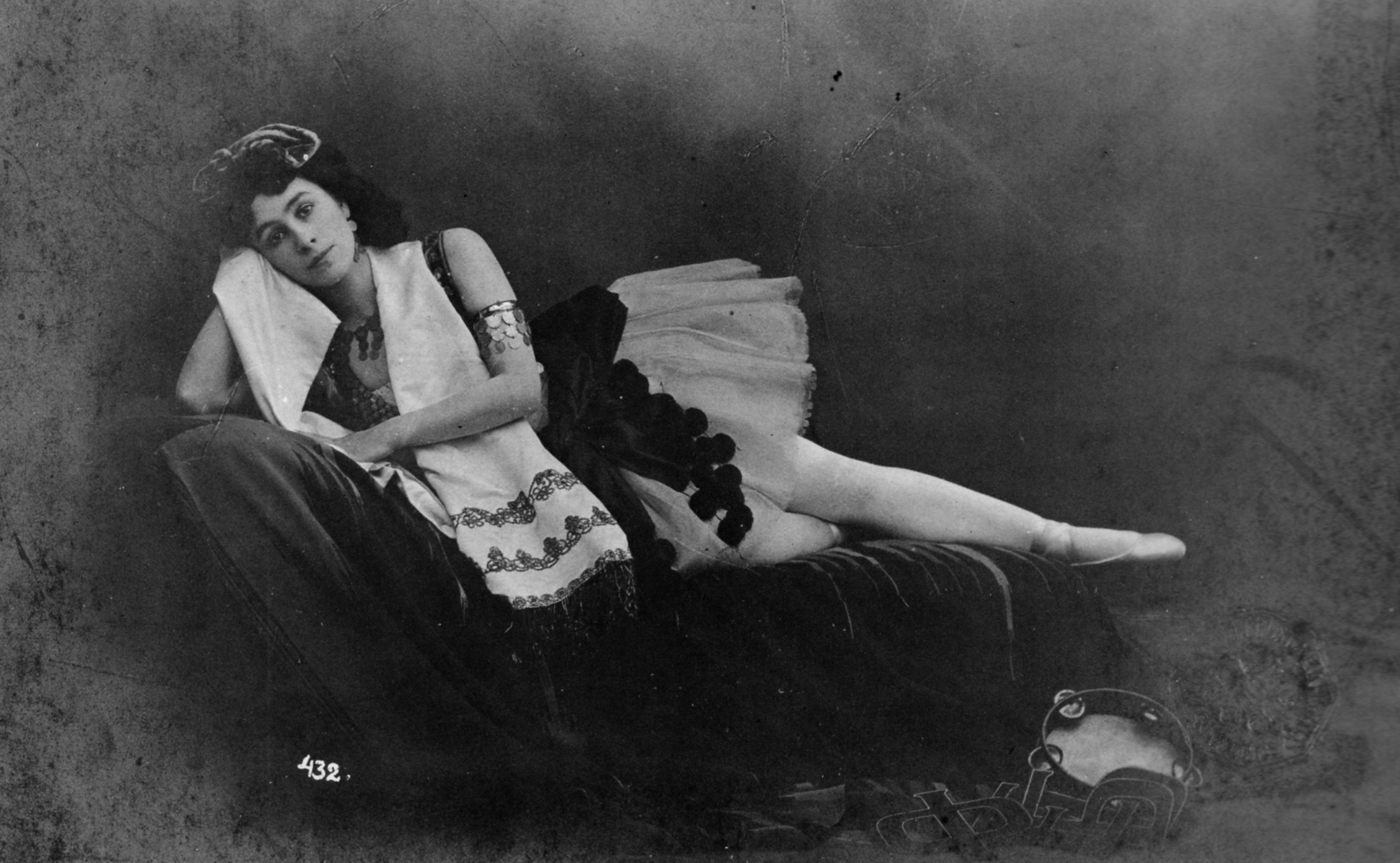 Photographic postcard of Mathilde Felixovna Kschessinskaya (1872-1971), Soloist to His Imperial Majesty and Prima ballerina of the St. Petersburg Imperial Theatres. She is costumed for the title role in a revival of choreographer Jules Perrot (1810-1892) and composer Cesare Pugni's (1802-1870) ballet La Esmeralda, circa December 1898.